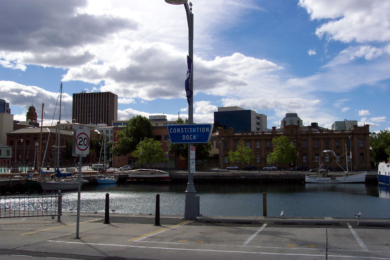 Constitution Dock, Hobart, Tasmania Taken by Enoch Lau on 11 January 2004. As a courtesy, please let me know if you alter this image or this image description page. Original filename was 100_2326.JPG.